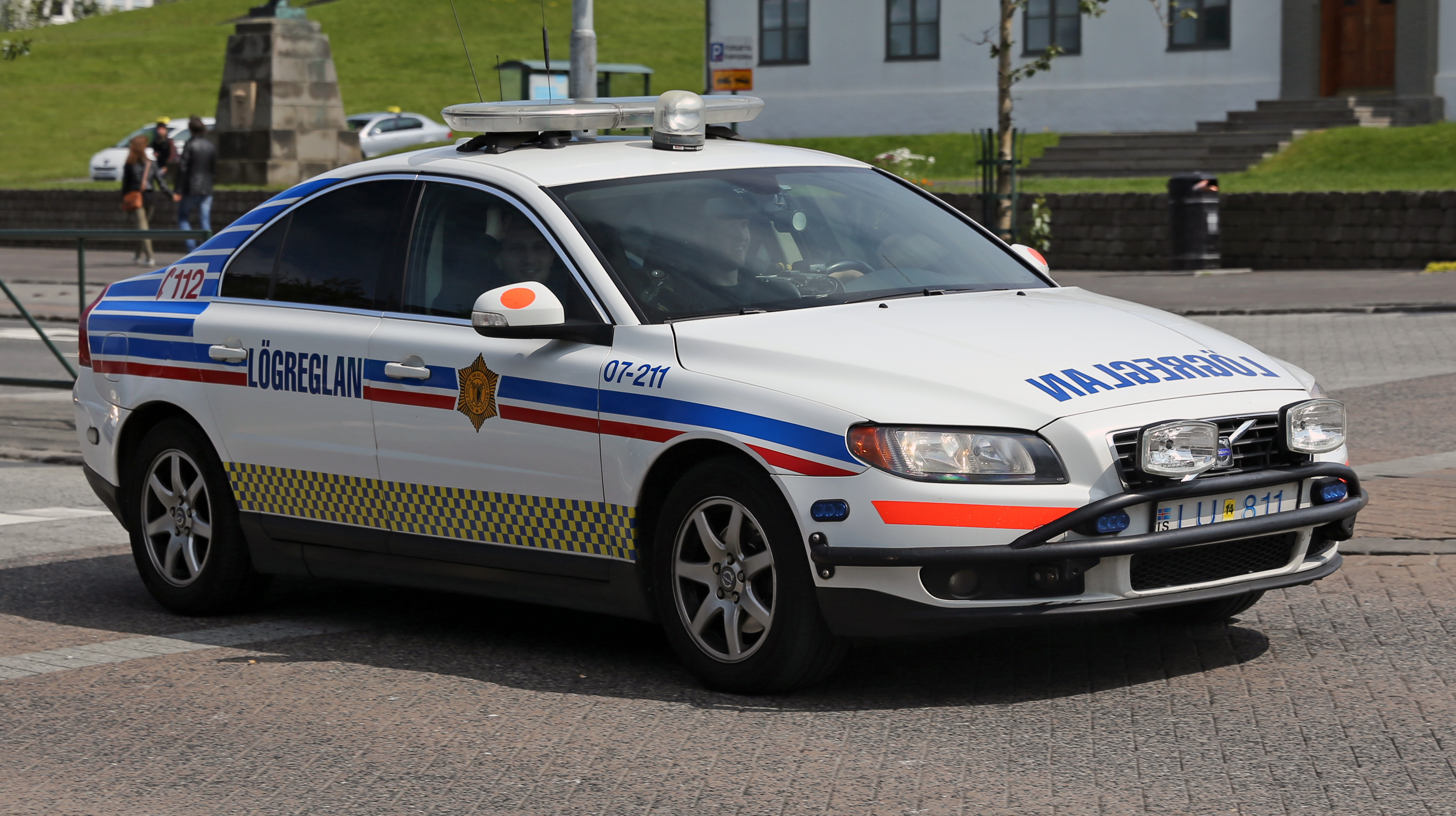 A 2007 Volvo S80 D5 Automatic (185PS) belonging to the Icelandic police, or "Lögreglan".